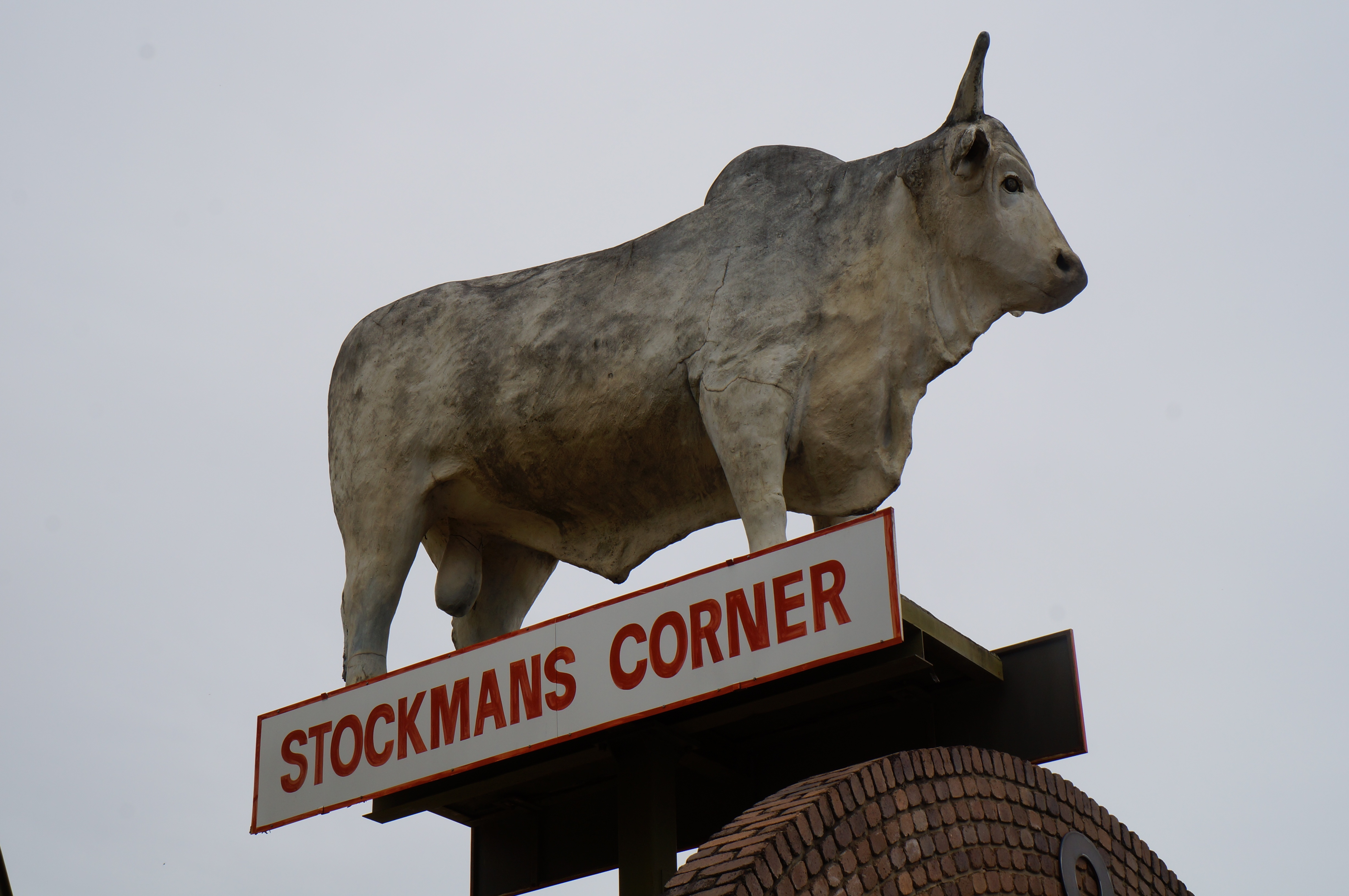 Photo of the Big Bull in Rockhampton